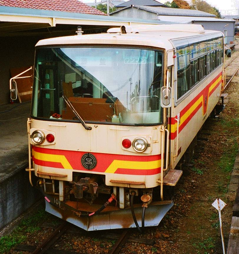 Arita-Railway type Haimo180-101 RailBus(Japan). 有田鉄道線ハイモ180-101気動車 金屋口駅構内にて 敷地外より撮影